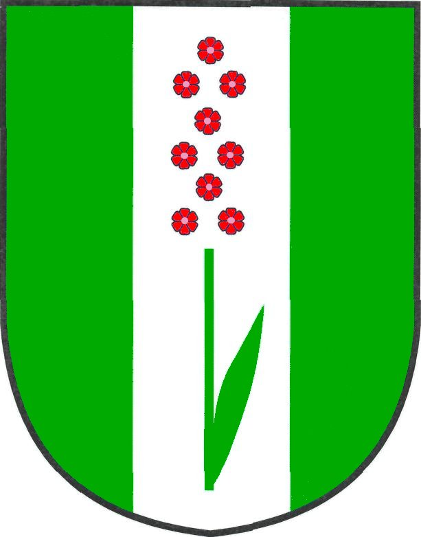 Municipal coat of arms of Bílichov village, Kladno District, Czech Republic.